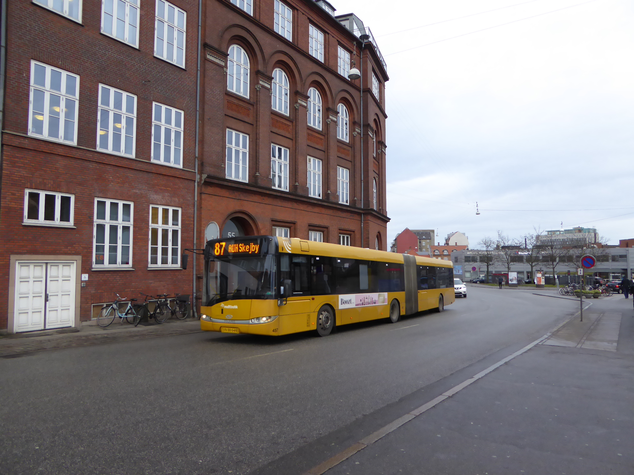 Midttrafik bus line 87 on Ny Banegårdsgade in Aarhus in Denmark. Line 87 was a temporary line which run from 17 to 21 December 2017 until the opening of Aarhus Letbane.